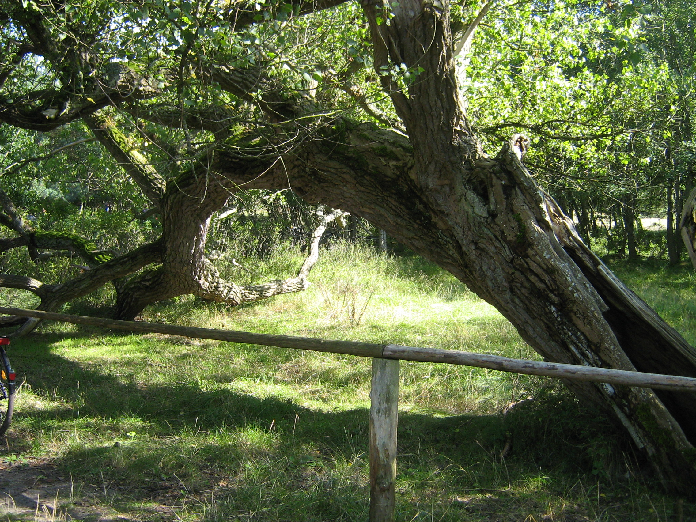 Tree by the Natureum-museum of Darßer Ort in Germany